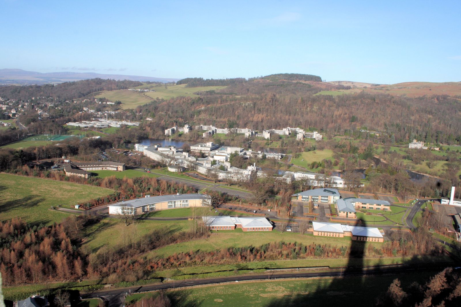 aerial view of Stirling University